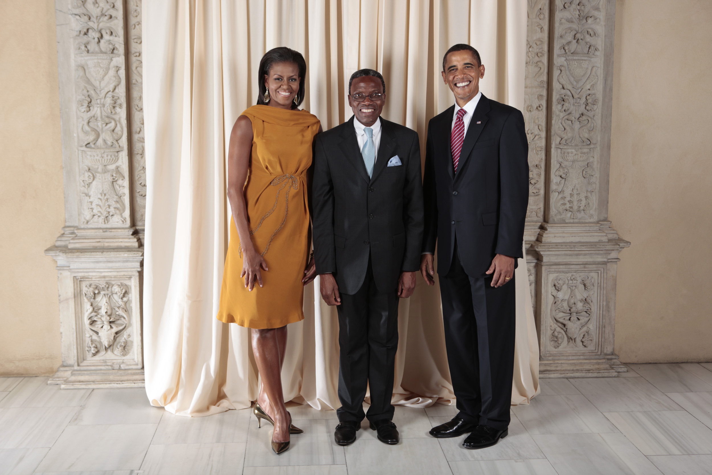 President Barack Obama and First Lady Michelle Obama pose for a photo during a reception at the Metropolitan Museum in New York with Jean-Marie Ehouzou of Benin.